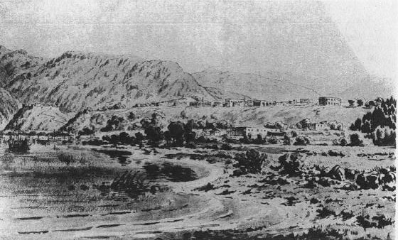 Reconstruction sketch of the roman city Brigantium, Harbor, Upper Town, and settlement on the Ölrain in Bregenz / Austria, drawn by Samuel Jenny, late 19th Century.